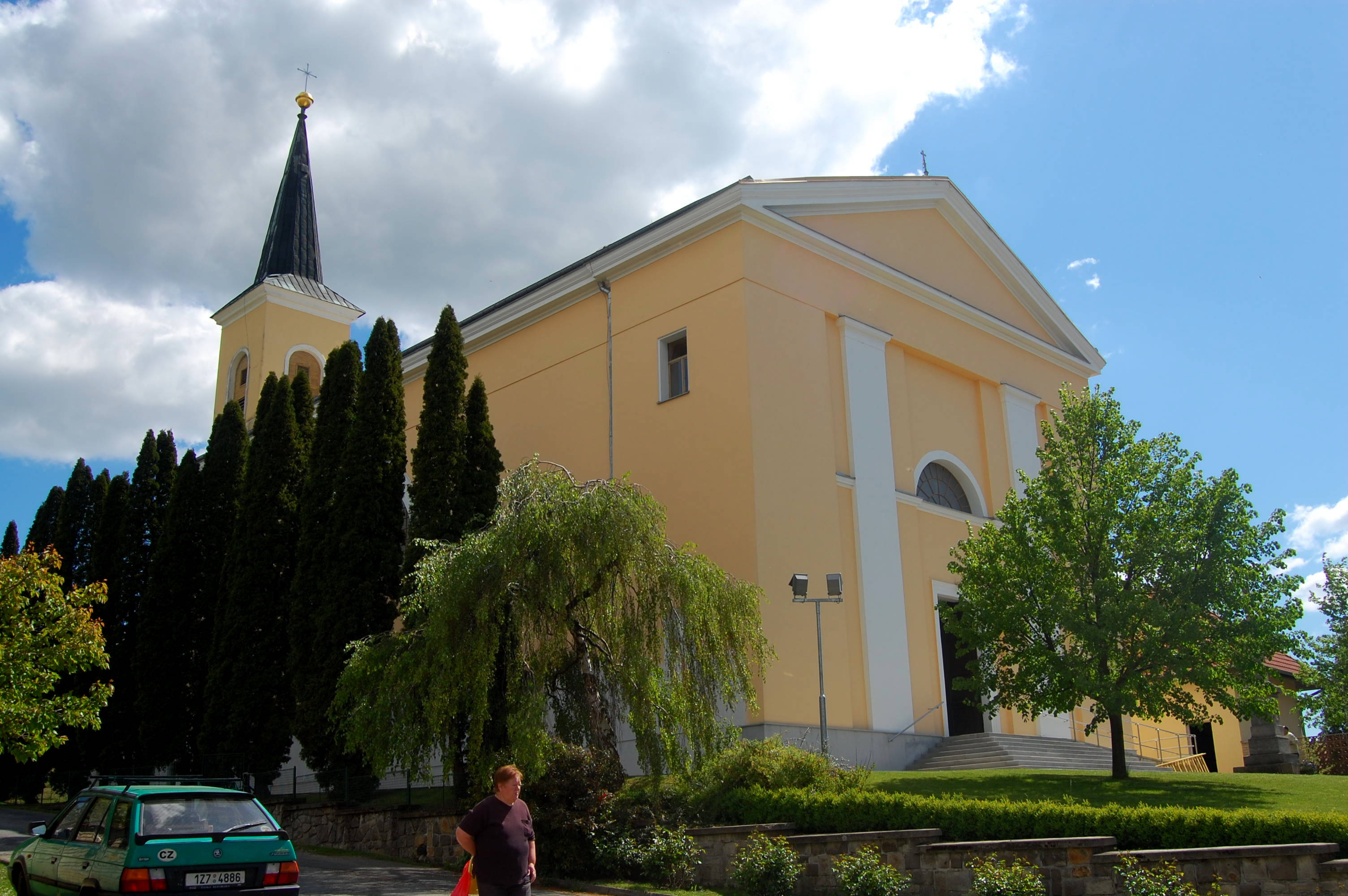 Church of saint John the Baptist in Uhersky Brod - Ujezdec, Czech Republic